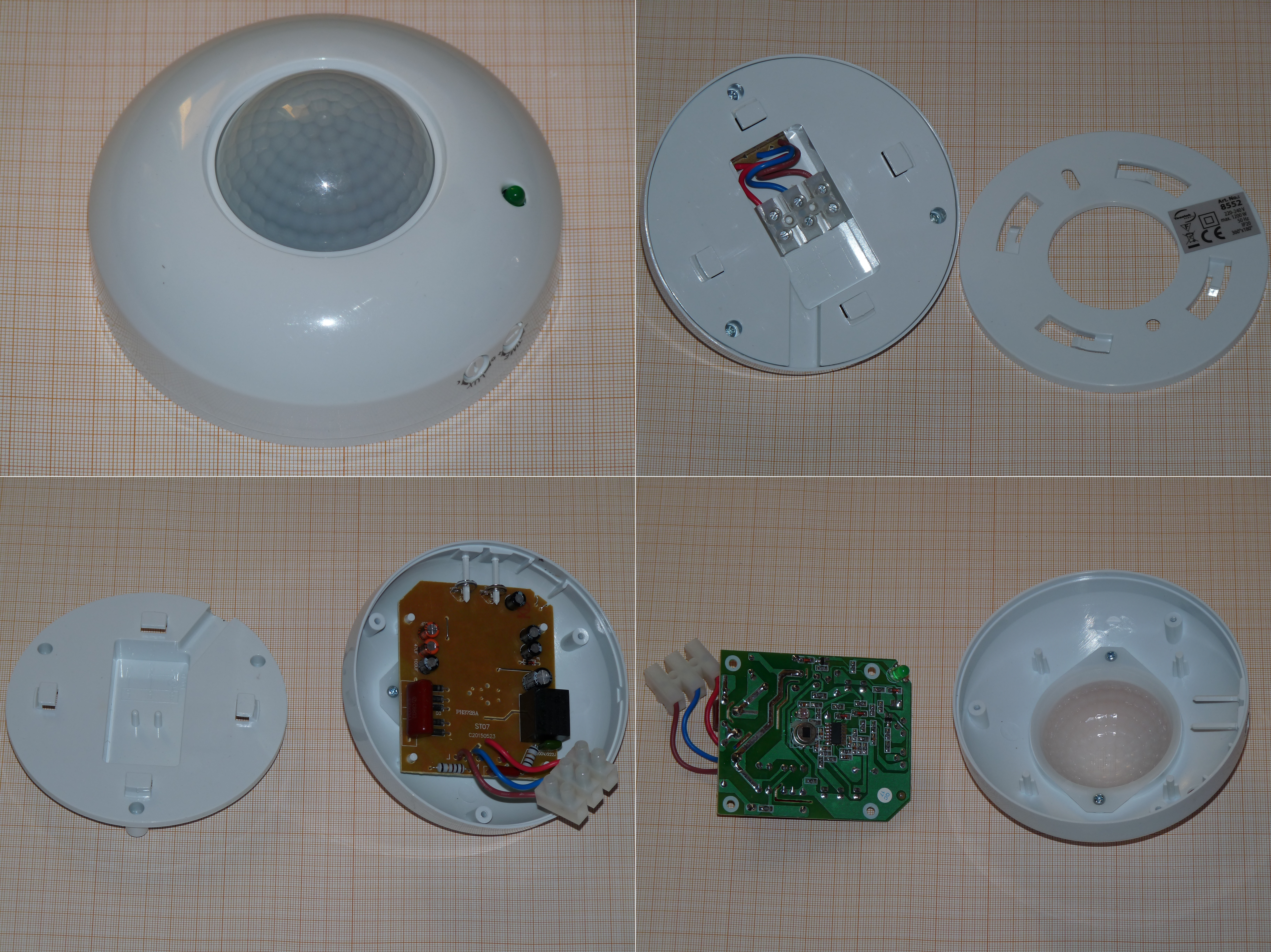 Motion detector